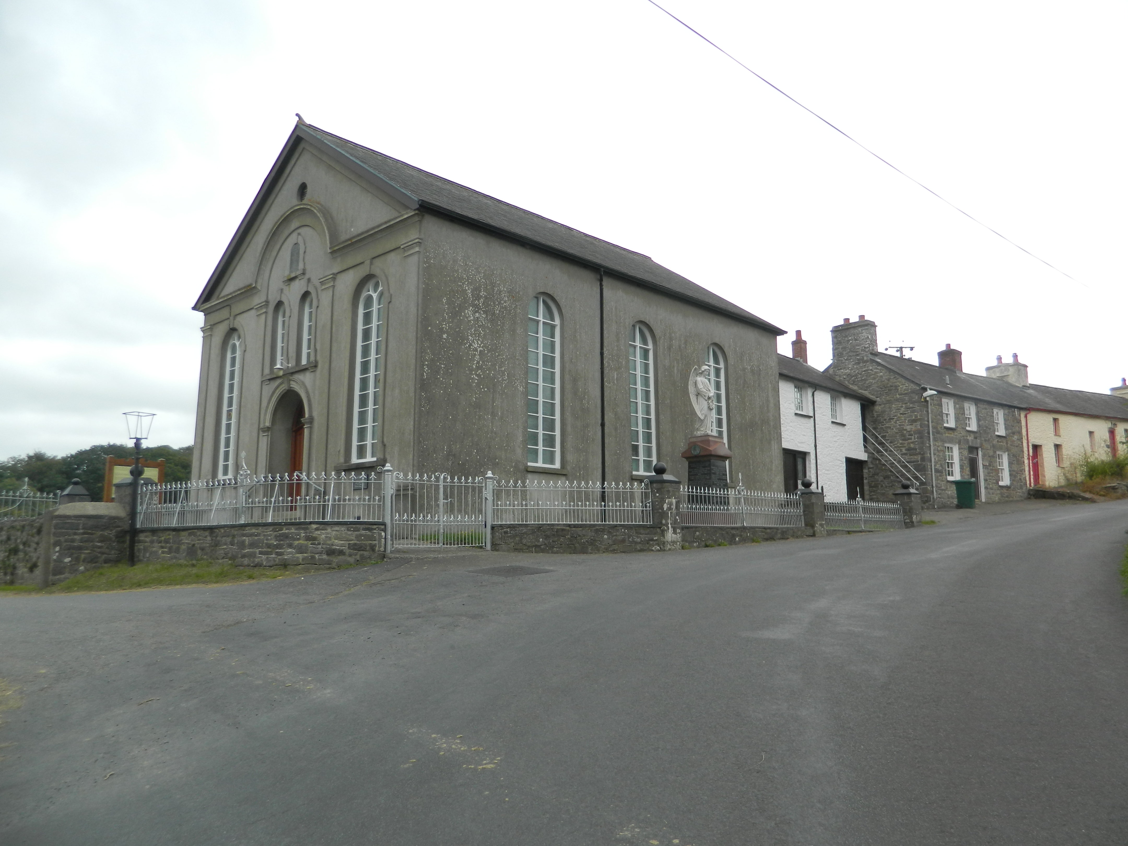 Neuaddlwyd Chapel. From this church, and the training academy conducted by its first full-time minister, came a number of young men and their wives, who first took the gospel to Madagascar. I recently met a Malagasy family, now living in France, who had just made the journey to this chapel, to honour those to whom they felt they owed a great debt.